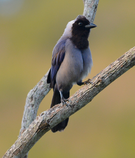 Violaceous Jay